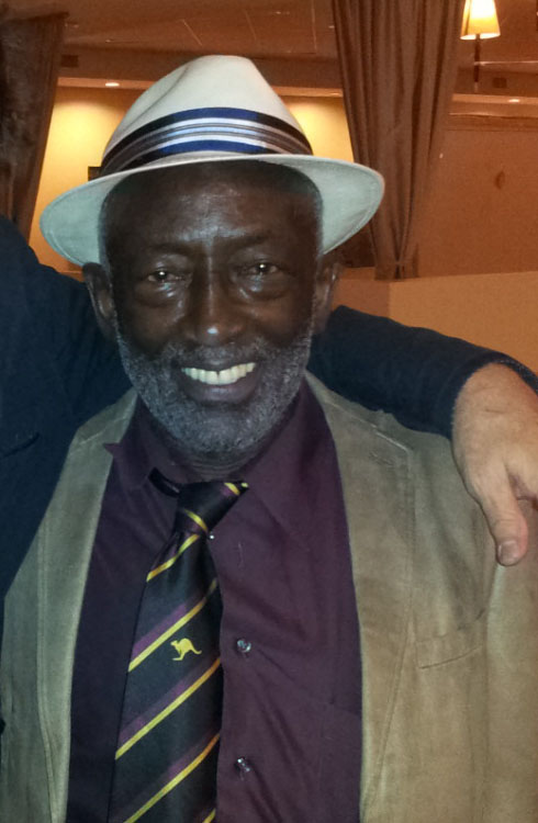 Garrett Morris at Garrett Morris' Downtown LA Blues and Comedy Club in Los Angeles.